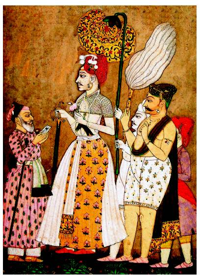 Detail from a Dakhani Miniature Painting, 18th century